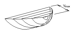 computation of discharge - Culman method 1